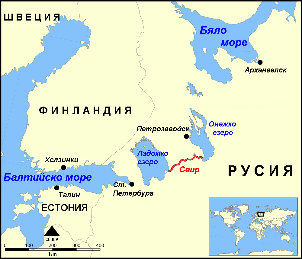 River Svir